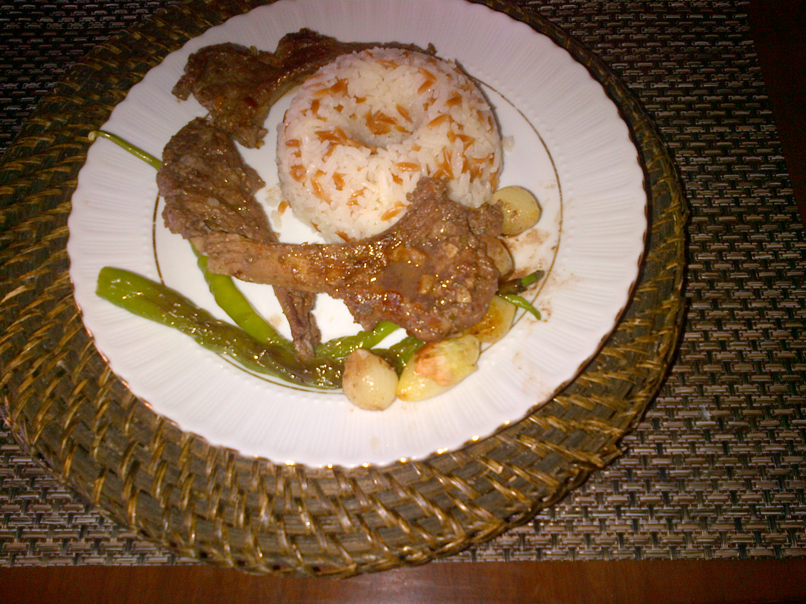 Pirzola with shallots and Turkish "pilav" with orzo.